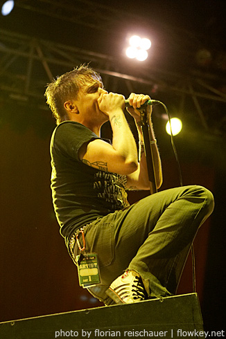 Benjamin Kowalewicz, Billy Talent, Nova Rock 2007